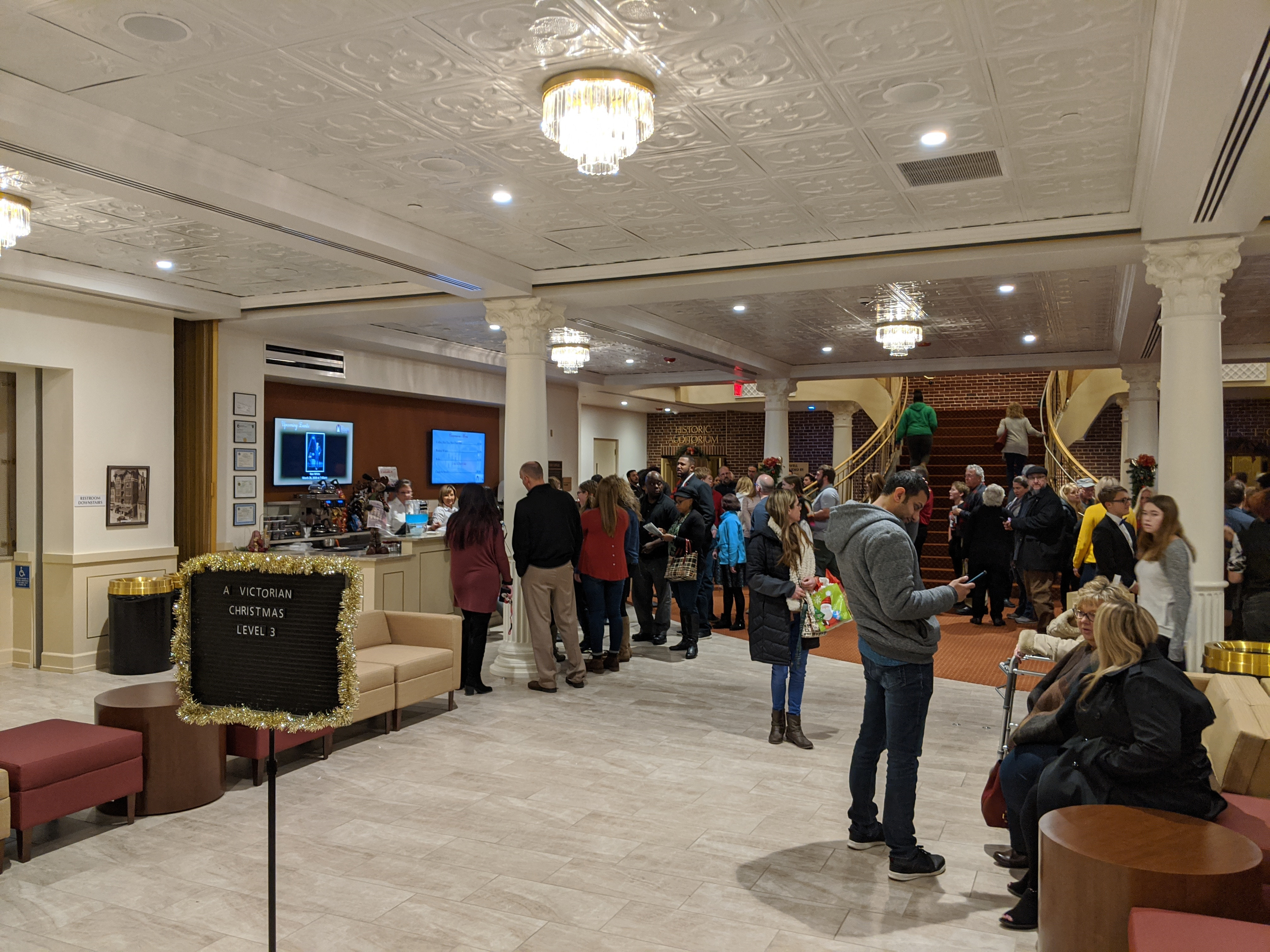 The Jone L. Bowman Lobby of the Maryland Theatre in Hagerstown, Maryland shortly after its completion in late 2019.